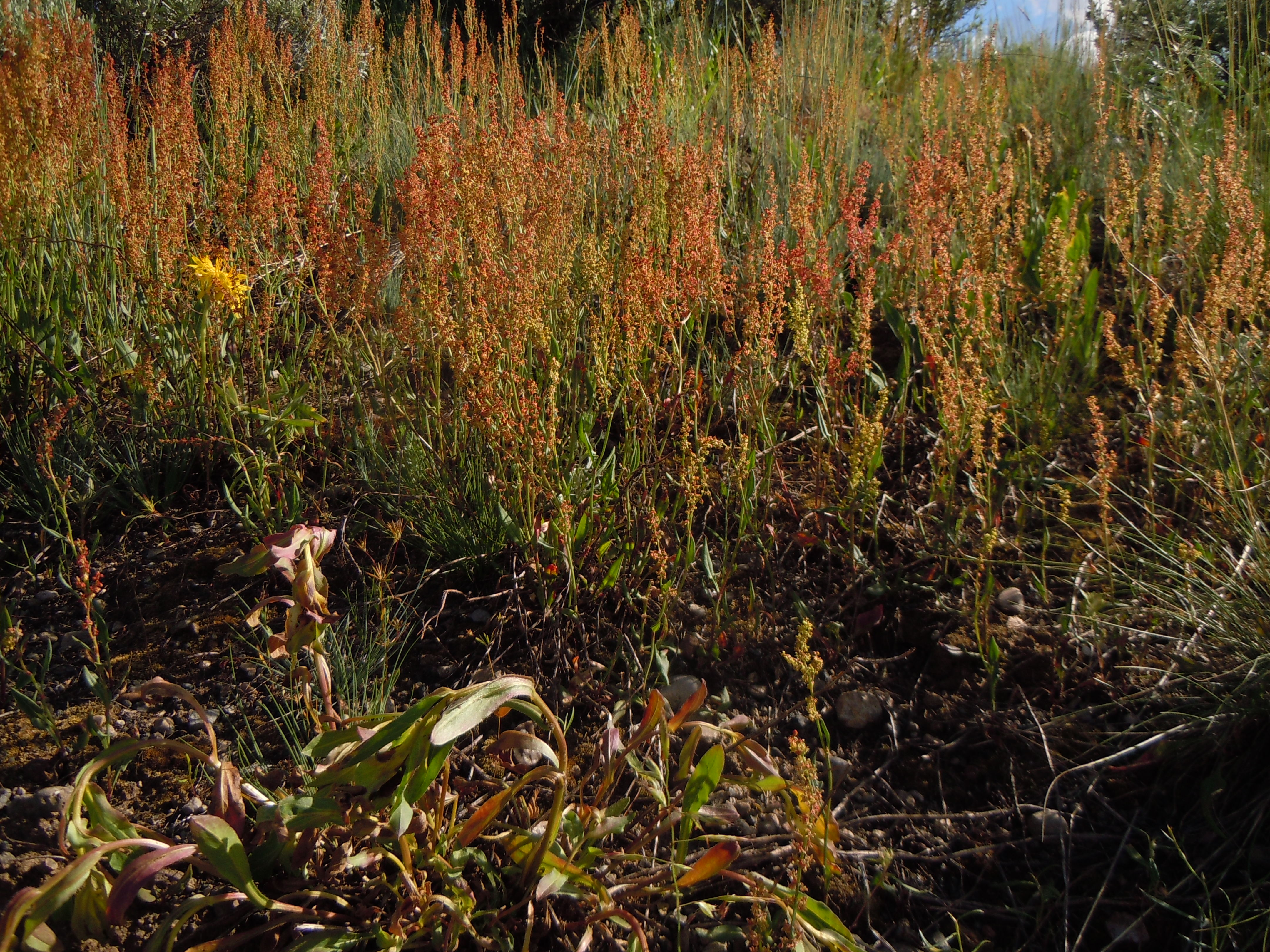 The genus Rumex is most common and diverse along road- and trail-sides and is not so common or diverse in adjacent sagebrush steppe with high native plant cover.